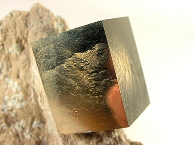 Pyrite Locality: Logrono, La Rioja, Spain Size: small cabinet, 9.3 x 6 x 3 cm Pyrite on Matrix This slightly elongated, almost pristine pyrite crystal, which measures 3 cm in length, sits jauntily on its clay matrix. It exhibits the finest mirror �like metallic luster. Of the many thousands of these that I have seen, the quality and aesthetic arrangement makes this particular piece stand out! Note that most of these are prepped and the pyrites fall out but get put back in after the trimming out is done, so it is most likely repaired.